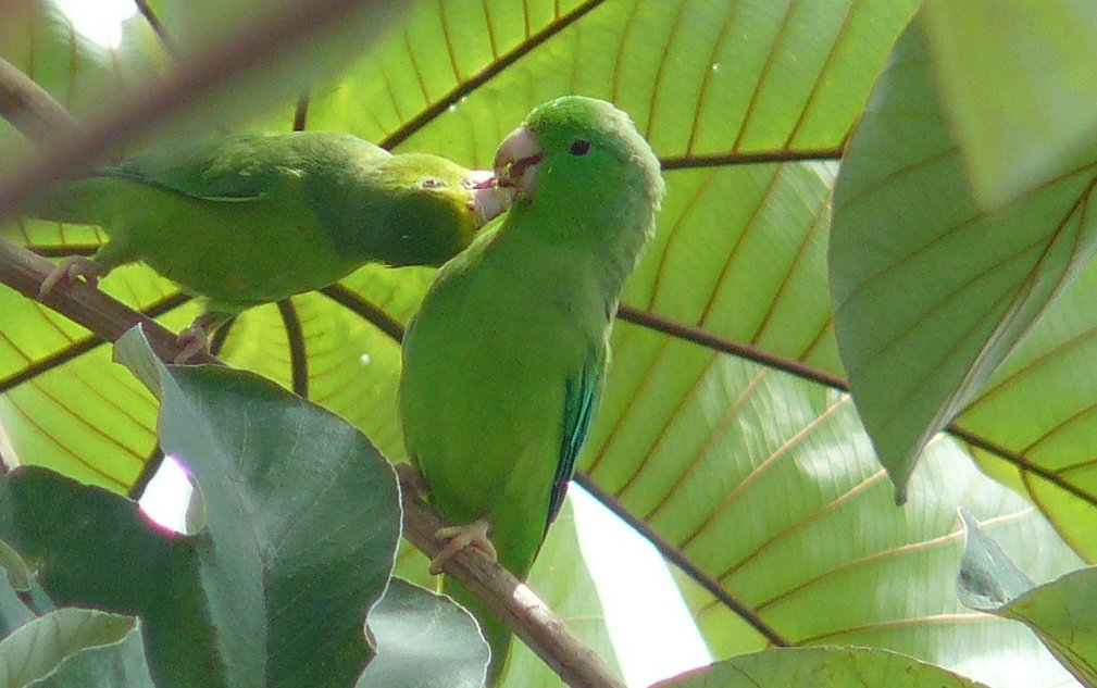 Green-rumped Parrotlet, (Forpus passerinus), a pair, male (right) and female (left), in Venezuela